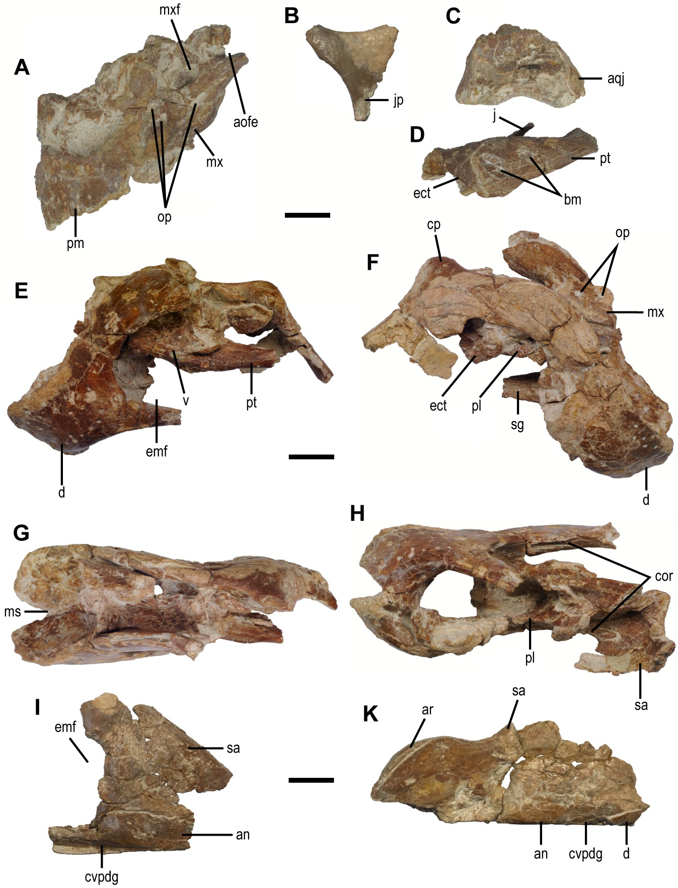 Cranial elements of the holotype specimen (MPC-D 102/111) of Gobiraptor minutus gen. et sp. nov. (A) Left premaxilla and maxilla in lateral view. (B) Left postorbital in lateral view. (C) Right quadrate in caudal view. (D) Left ectopterygoid and pterygoid in lateral view. (E-H) Rostral region of the mandible in left lateral (E), right lateral (F), dorsal (G), and oblique ventral (H) views. (I) Left surangular and angular in lateral view. (K) Caudal region of the right mandibular ramus in lateral view. Abbreviations: an, angular; aofe, antorbital fenestra; aqj, articular surface for quadratojugal; ar, articular; bm, bite mark(s); cor, coronoid bone; cp, coronoid process; cvpdg, groove for the caudoventral process of dentary; d, dentary; ect, ectopterygoid; emf, external mandibular fenestra; j, jugal; jp, jugal process of postorbital;ms, intermandibular suture; mx, maxilla; mxf, maxillary fenestra; pl, palatine; pm, premaxilla; pt, pterygoid; sa, surangular; sg, groove for splenial; v, vomer. Scale bars equal 1 cm.